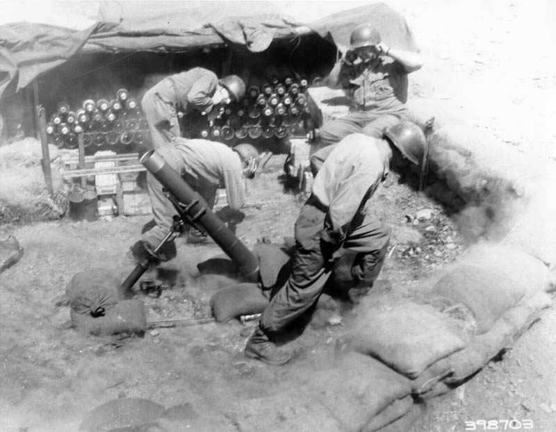 SC398703 - A 4.2-inch mortar crew of the Heavy Mortar Company, 179th Regiment, 45th U.S. Infantry Division, fires on Communist positions, west of Chorwon, Korea.